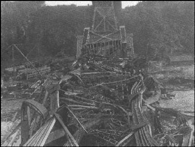 The wreckage